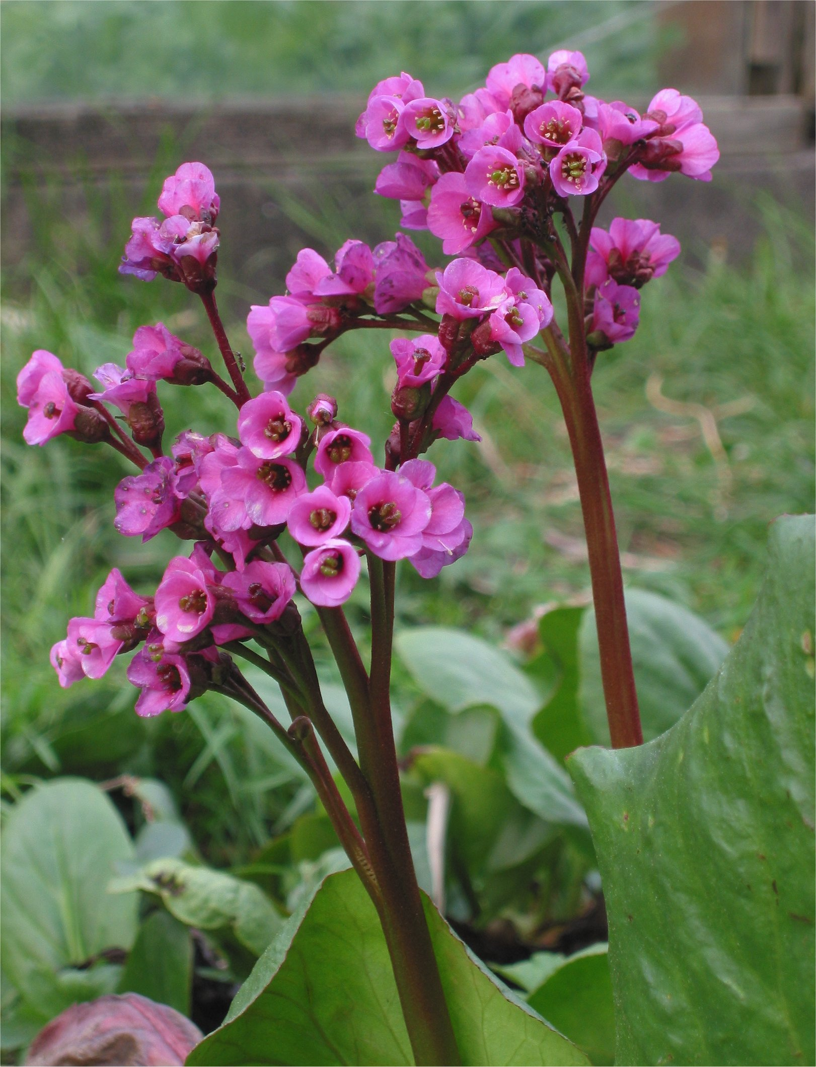 (Schoenlappersplant) Bergenia cordifolia 'Purpurea'